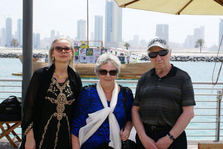 From left to right, Brigitte Schenk, Emilia Kabakov, Ilya Kabakov. Ilya & Emilia Kabakov, “Boat of Tolerance“, Collateral project of the Sharjah Biennial 10, March, 2011 (The Maritime Museum, Sharjah, UAE). Organized by The Department of Culture and Information, Sharjah, and Galerie Brigitte Schenk, Cologne